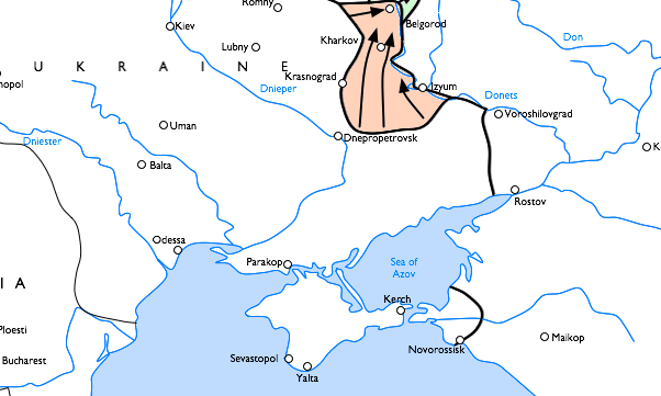 Cropped map showing for the Third Battle of Kharkov, based on :Image:Eastern Front 1943-02 to 1943-08.png.